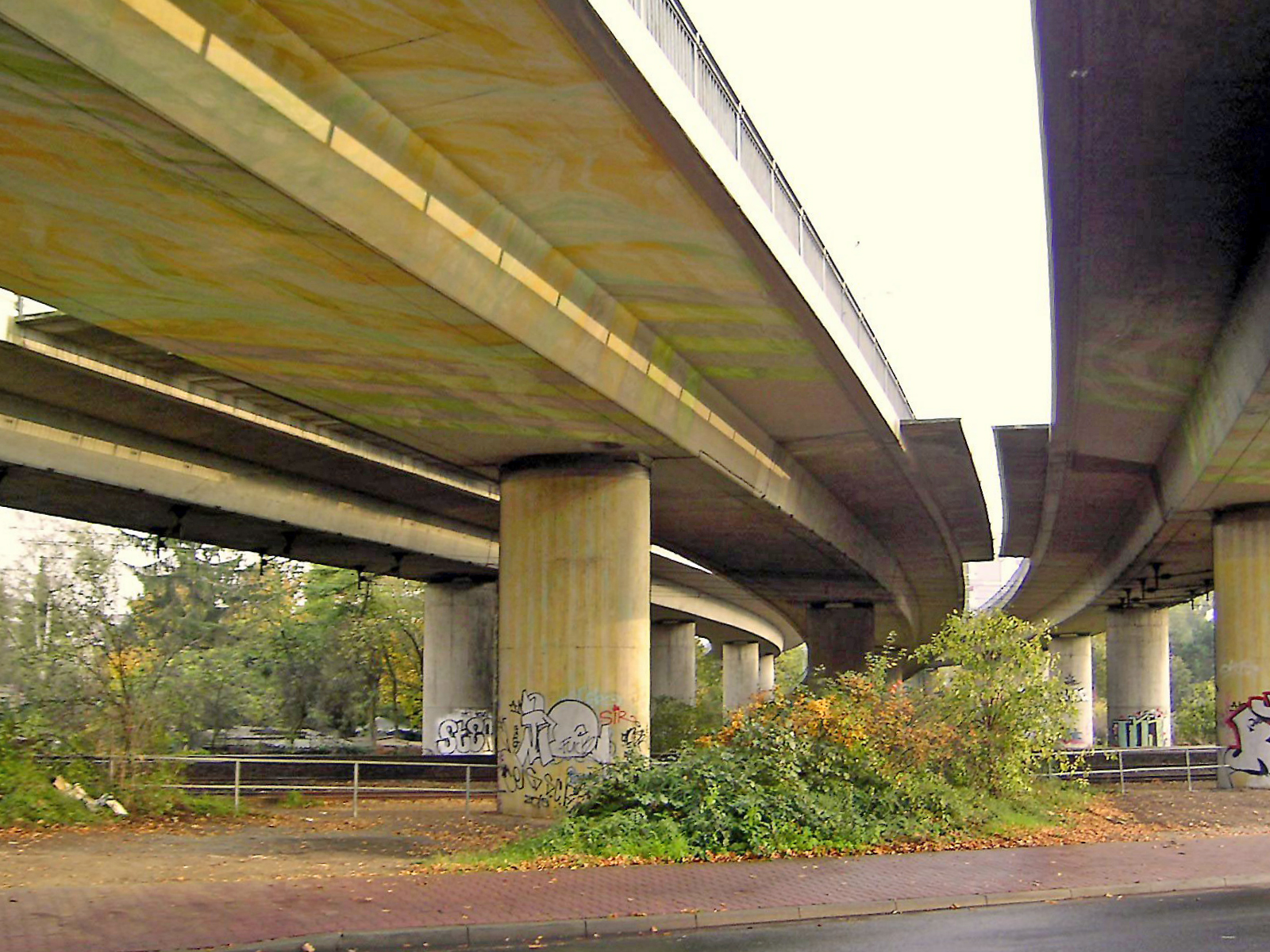 Elevated railway of line U1, Frankfurt am Main, Germany